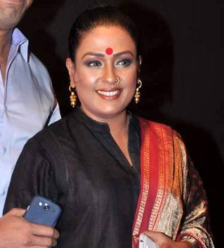 Ashwini Kalsekar at the CID Veerta Awards 2013.